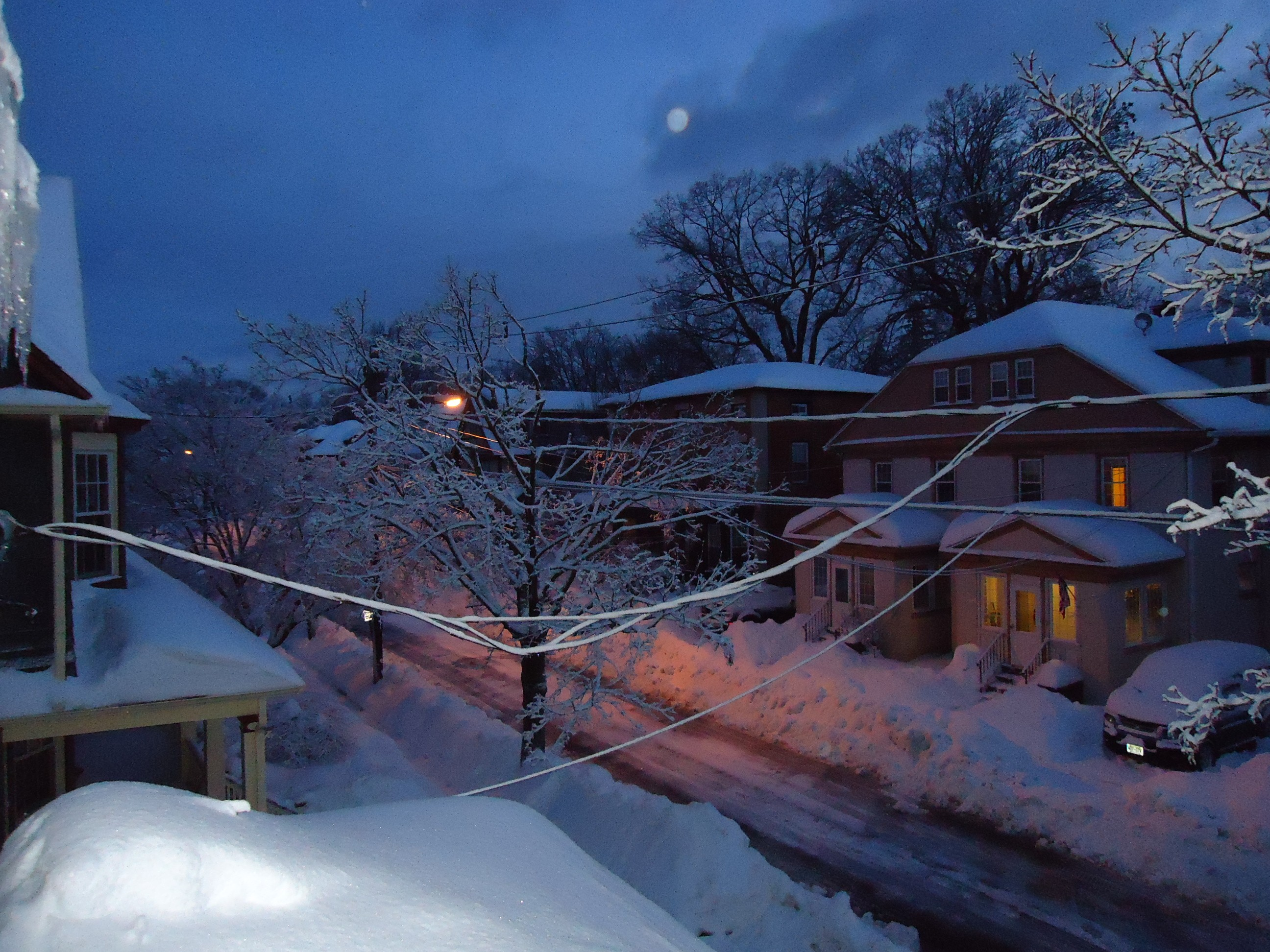 Summit, New Jersey street after a snowfall, in the early morning light in winter.